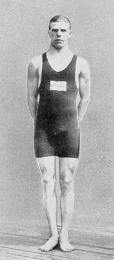 Erik Adlerz at the 1912 Summer Olympics